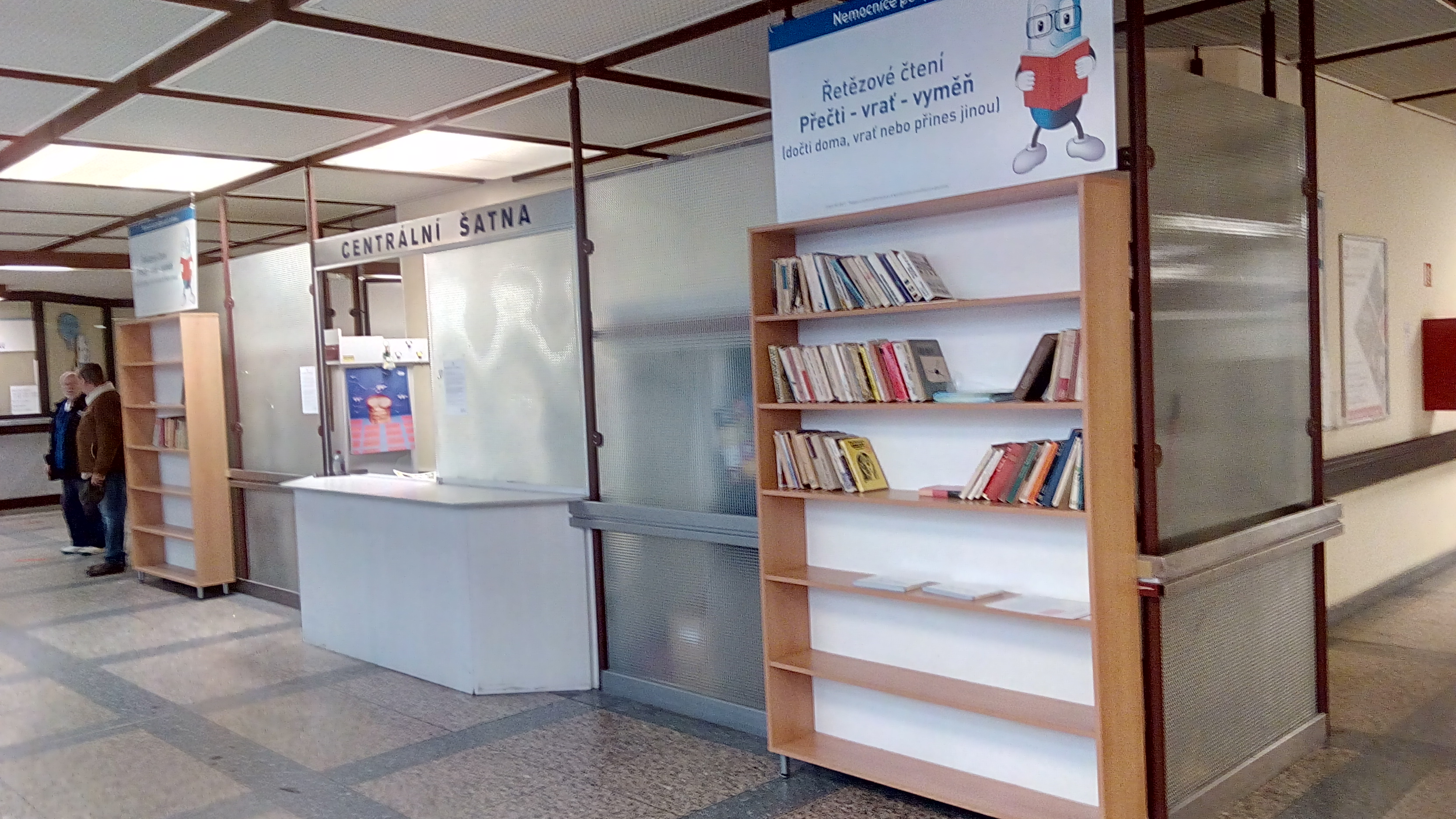 Bookcase of self service public library in the Hospital Motol in Prague